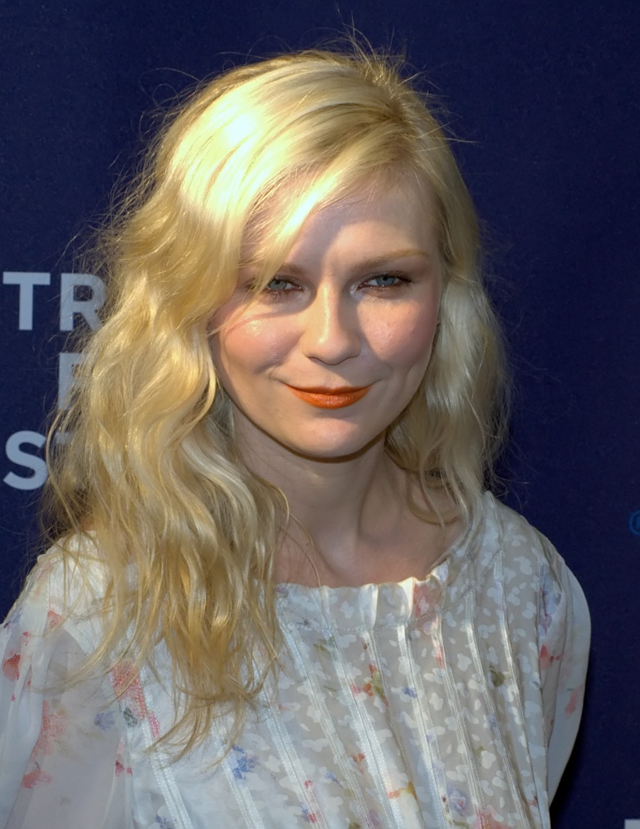 Kirsten Dunst at Tribeca Film Festival 2010